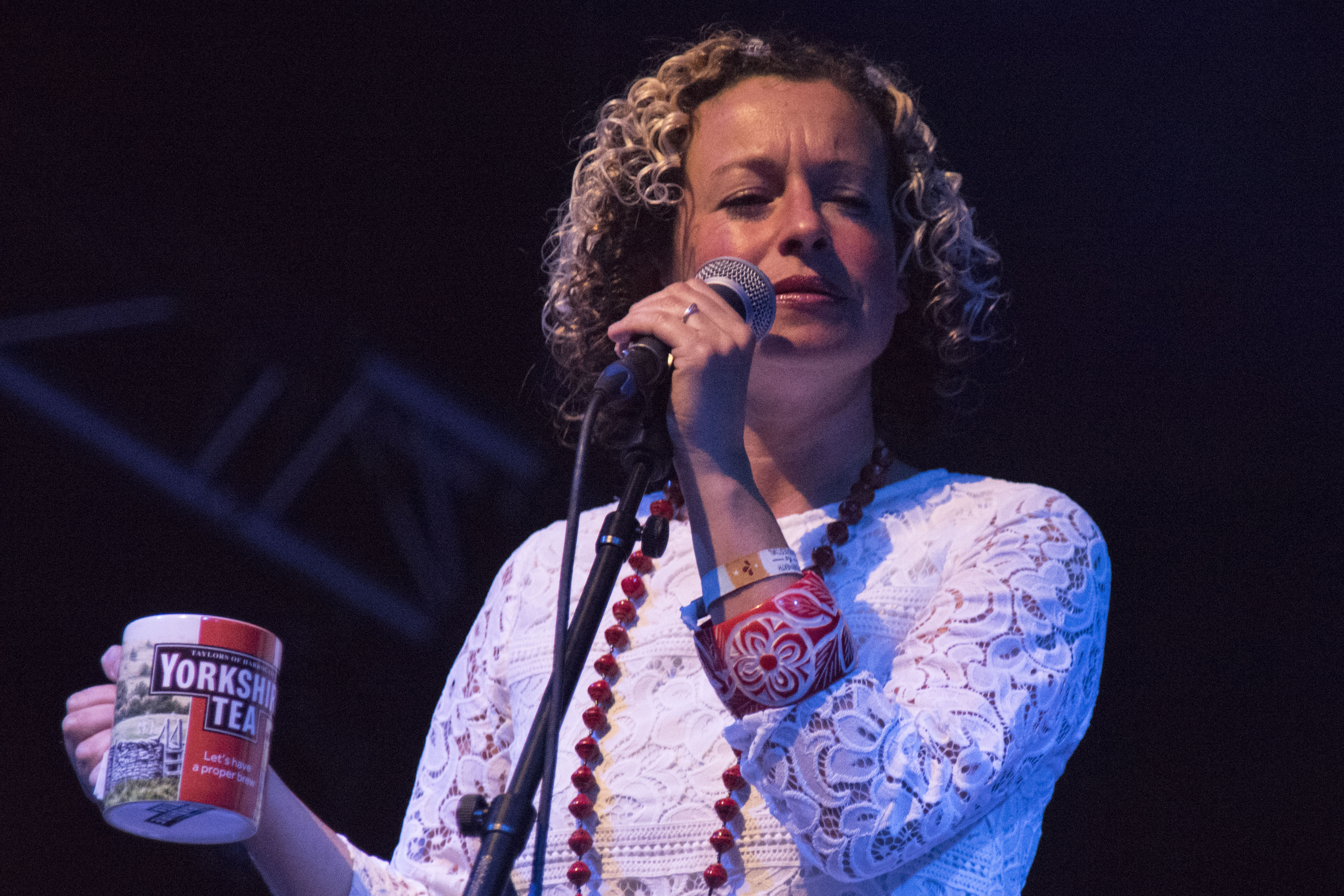 Underneath the Stars Festival, Cannon Hall Farm, Cawthorne